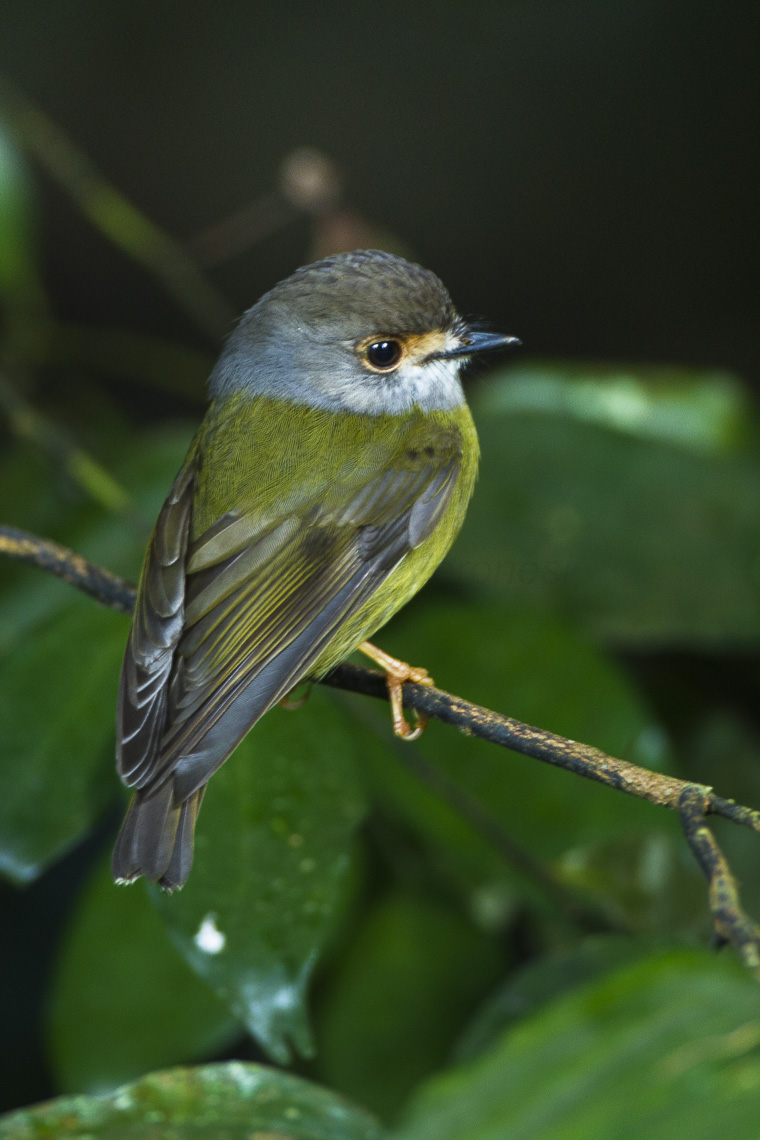 Pale-yellow Robin - Kingfisher Park - Queensland_S4E9450